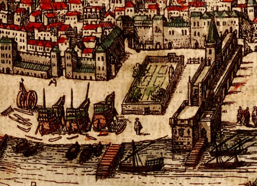 16th-century Engraving of Lisbon, Portugal.